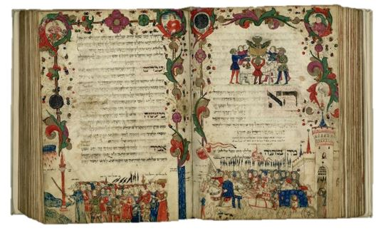 Created file from File:National Library of Israel, Mahzor Roma 2863431 1183831 tif jpg.jpg